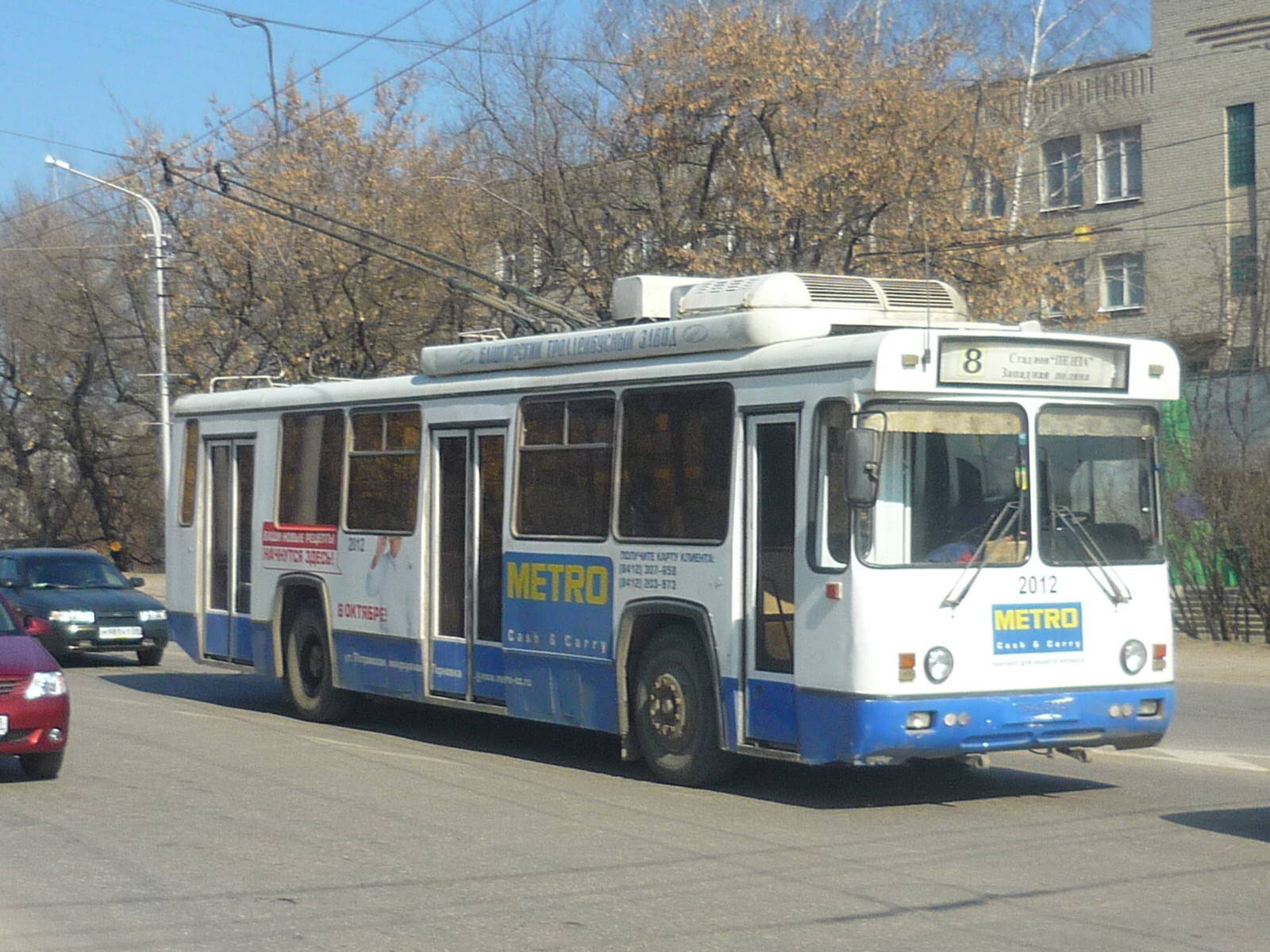 Trolleybus BTZ-5276.04 in Penza, Lenina street